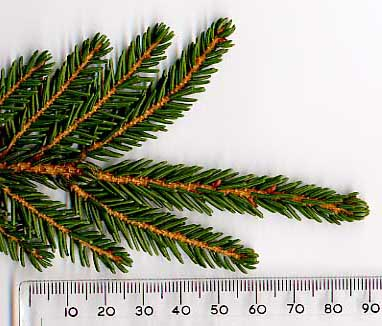 Picea orientalis foliage; cultivated, Northumberland, UK